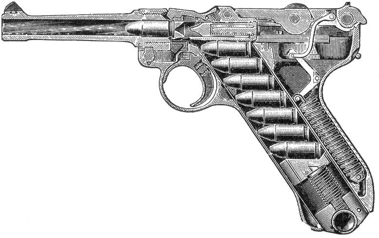 Cutaway drawing of the Luger design from Georg Luger's 1904 patent